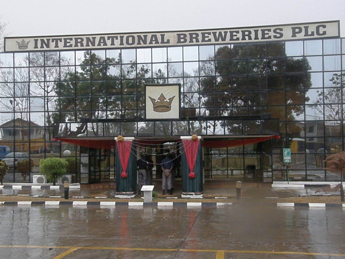 A photo of the entrance of the main office building in Ilesa for the International Breweries Plc page